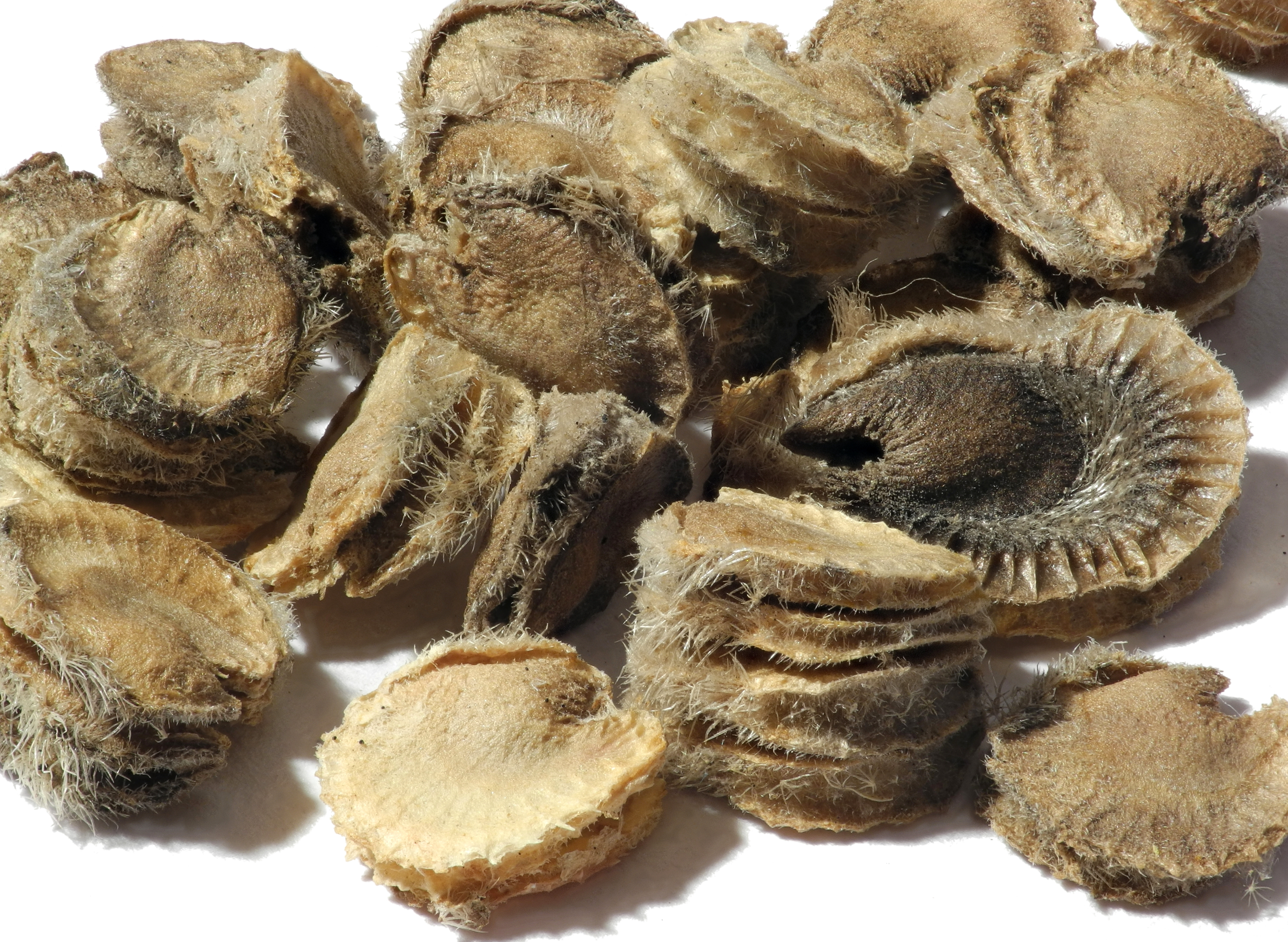 This image was uploaded as part of Wiki Science Competition 2019. Focus stacking of 46 pictures (using Zerene Stacker).Graines de rose trémière (Alcea rosea) (focus stacking). Image composée de 46 photos prises avec la bonnette Raynox DCR-250 et assemblées avec Zerene Stacker.